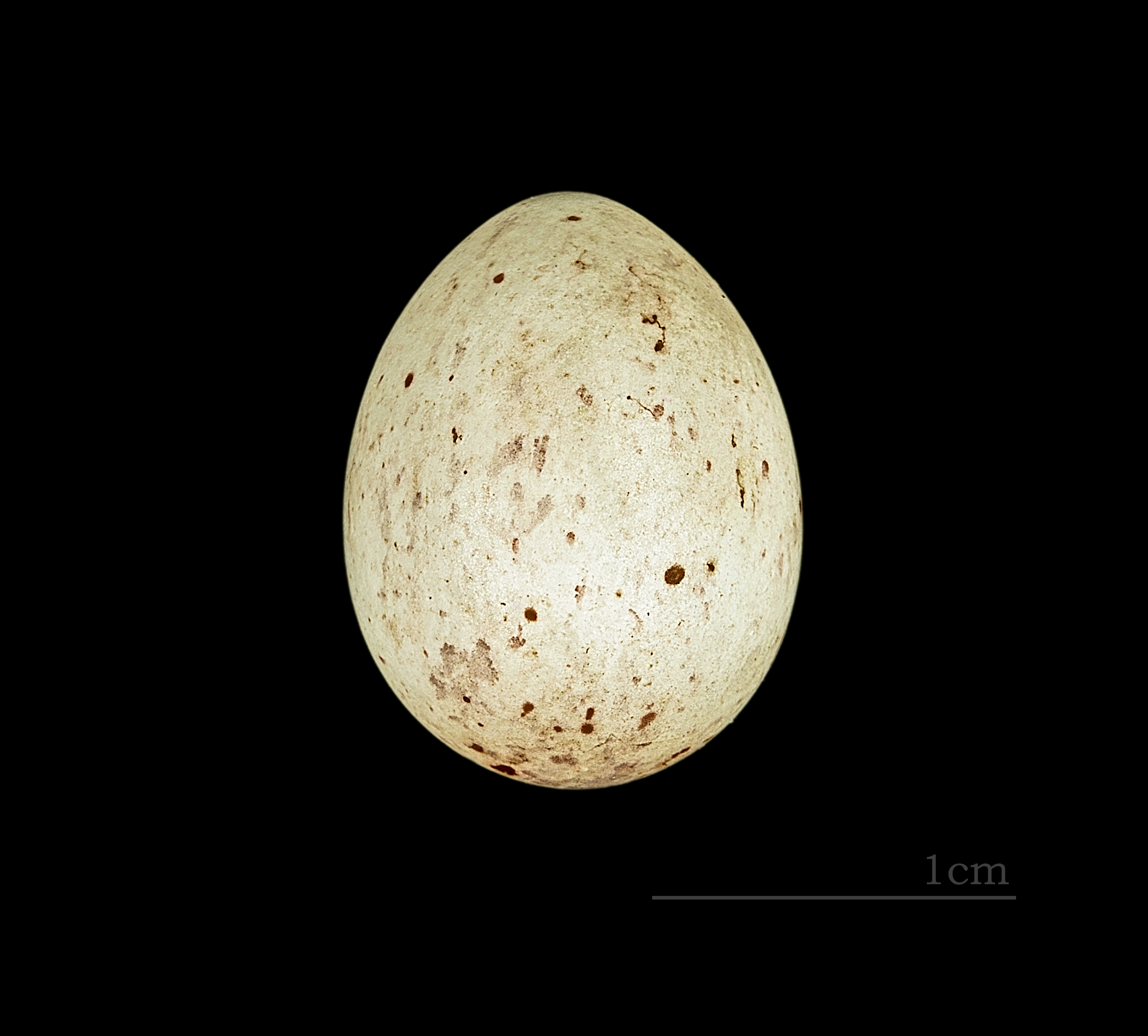 Egg of Red-fronted Serin. Collection of Jacques Perrin de Brichambaut